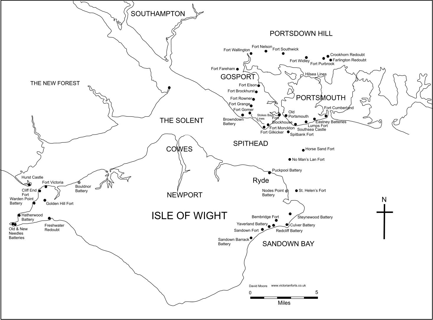 Plan of the Victorian defences of Portsmouth